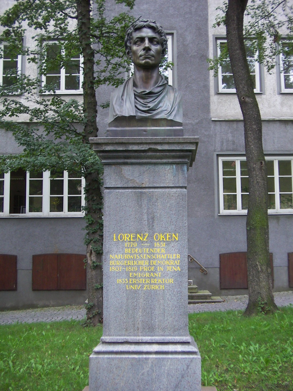 Lorenz Oken (physician), monument in Jena, GER